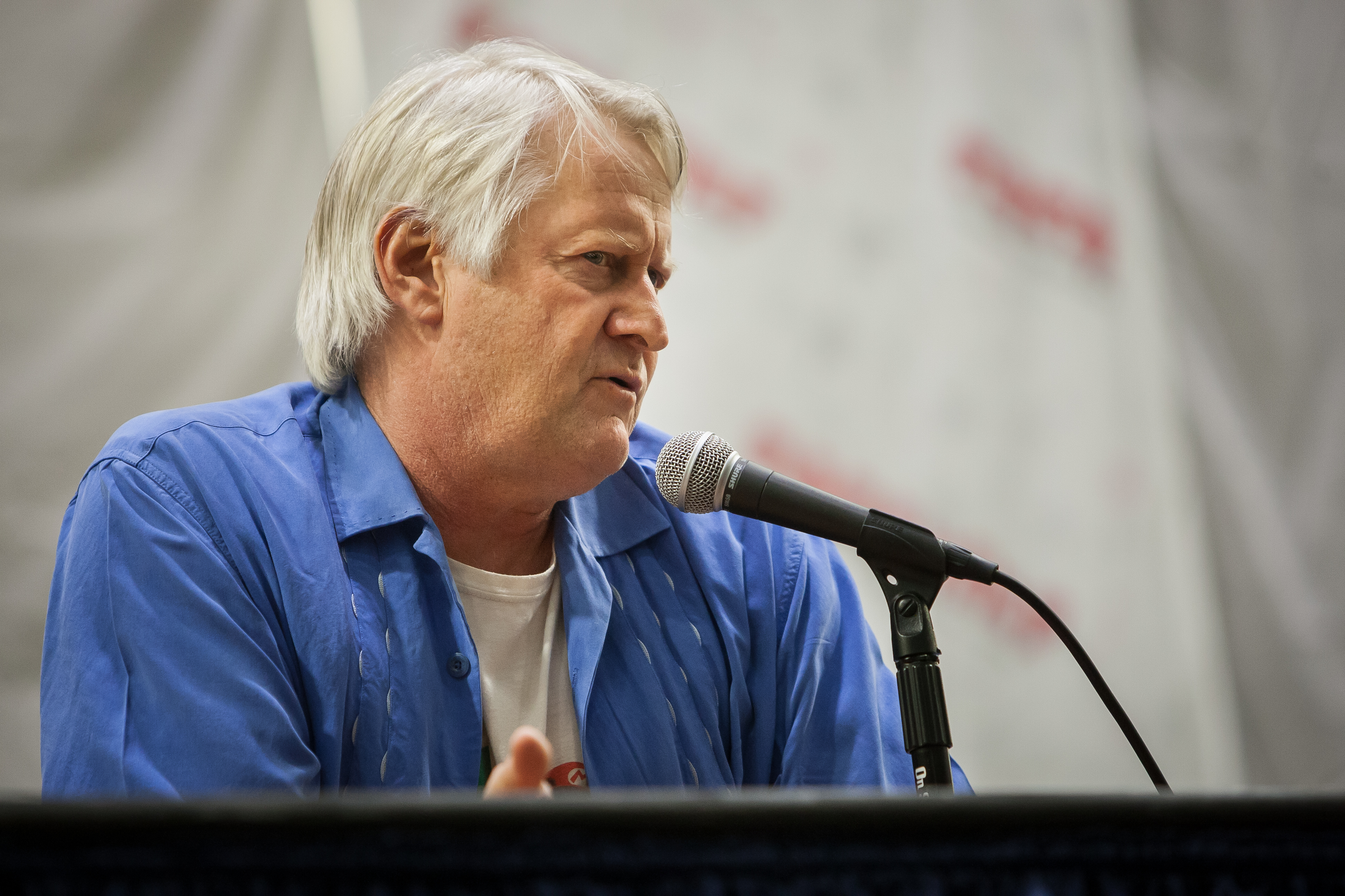 Charles Martinet (the voice of Mario) at SacAnime 2014.